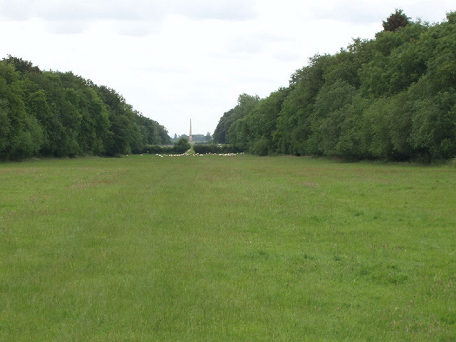 Avenue from Silverstone to Stowe Wolfe's Obelisk at Stowe ( is visible. The obelisk is about a mile away at SP674386. On the left is Sawpit Wood, on the right is Point Copse.